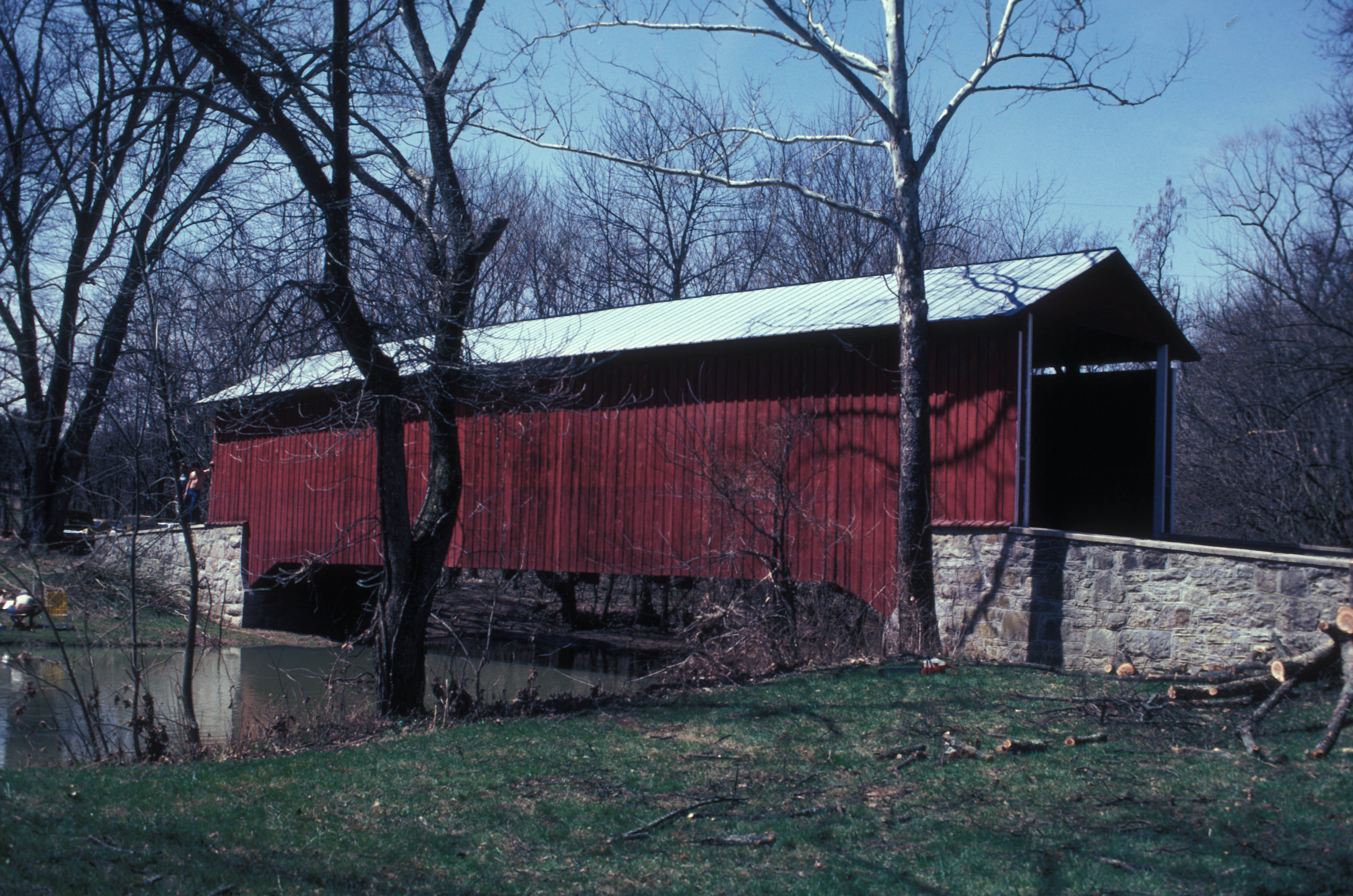 THE DISTRICT INCLUDES RED/WITHERSPOON CB OVER LICKING CREEK; 1883 94’ BURR PLUS A NEARBY MILL AND SEVERAL OTHER CONTRIBUTING STRUCTURES